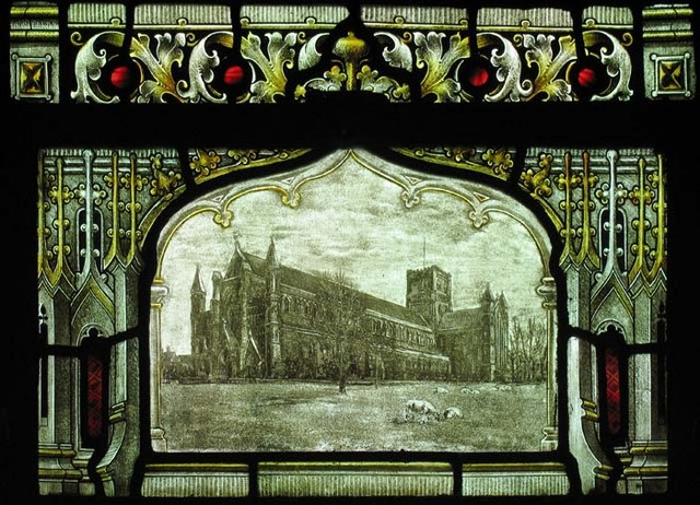 St Peter, Holwell, Herts - Window - St Albans Cathedral